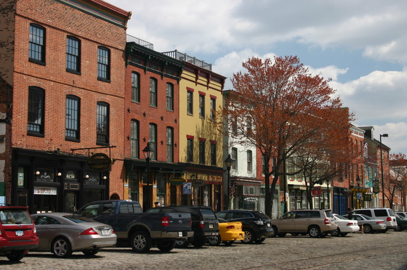 Author Baltimost 13:27, 16 April 2007 (UTC)